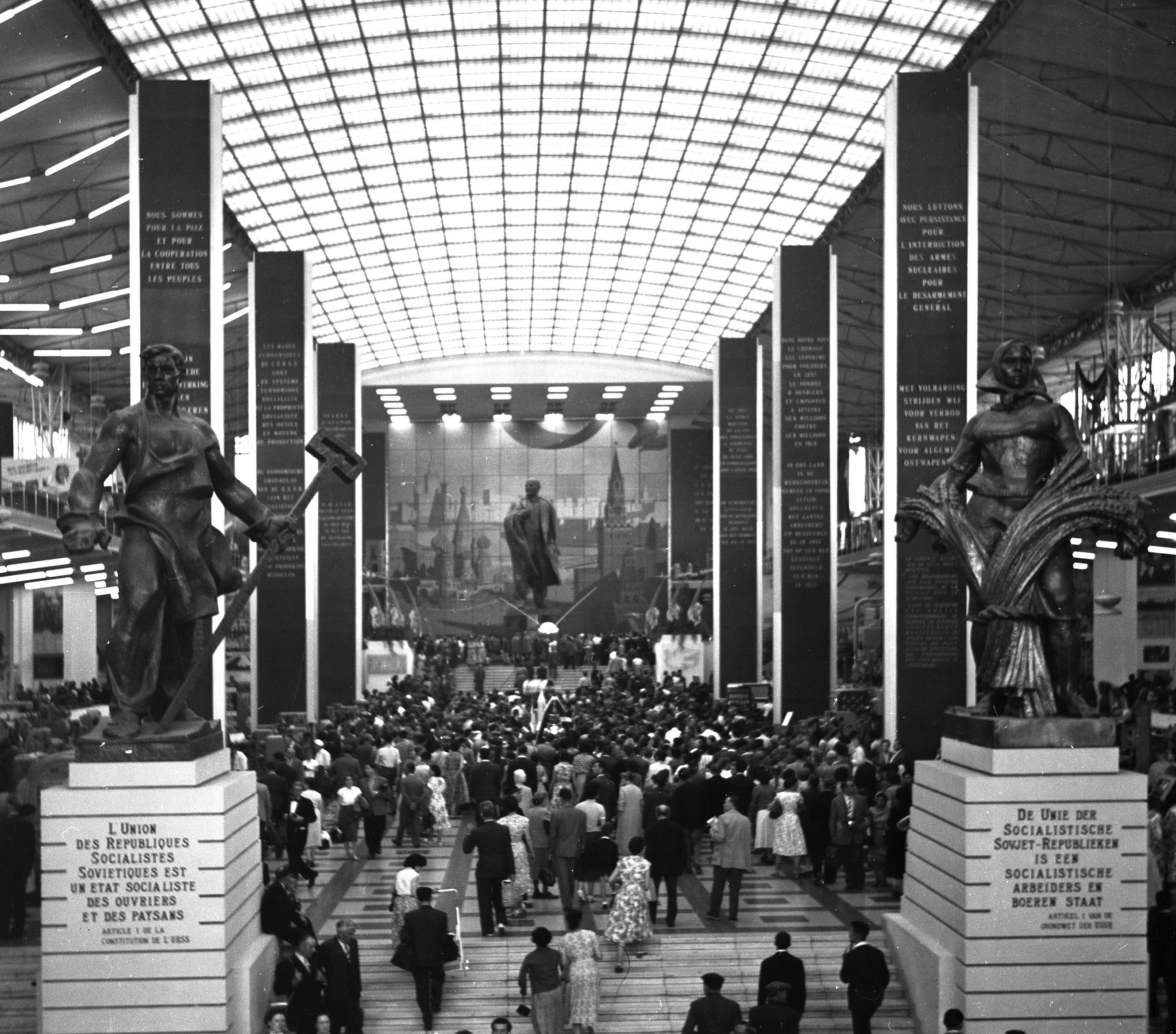 Expo 1958 in the building of URSS